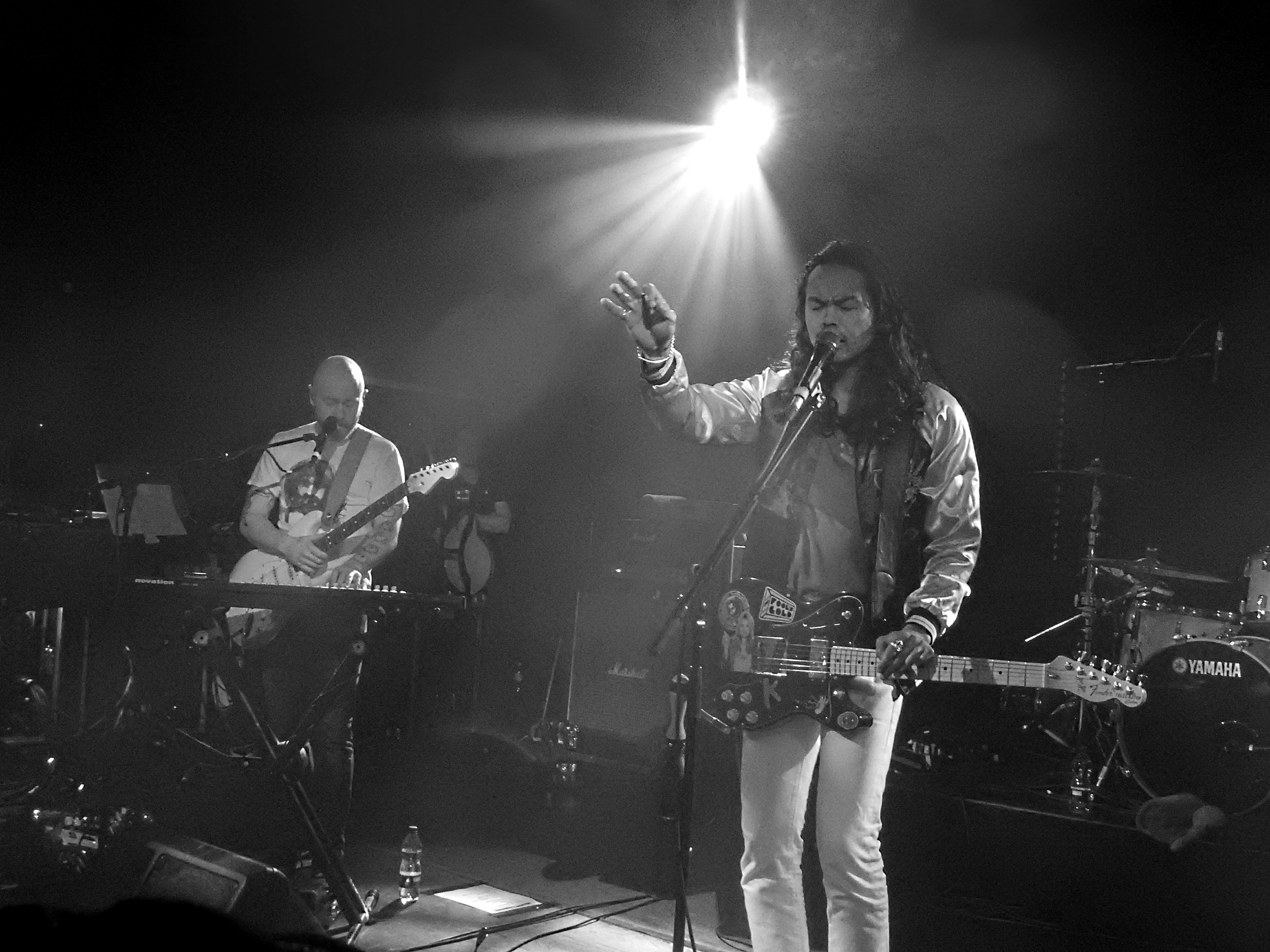 The Temper Trap performing live at the Old Market in Brighton, England, as part of The Great Escape Festival, on May 21, 2016.